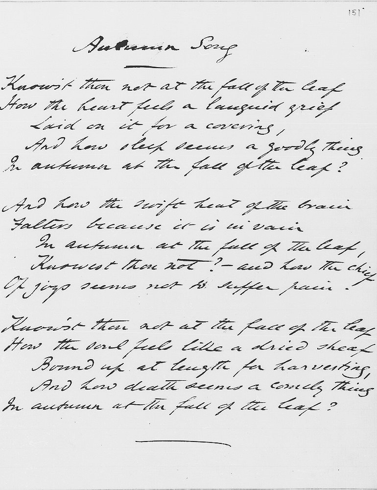 Current Location: British Library, Ashley Collection Catalogue Number: Ashley B1417 Paper: one of ruled cream laid paper Dimensions of document: 22 x 17.2 cm